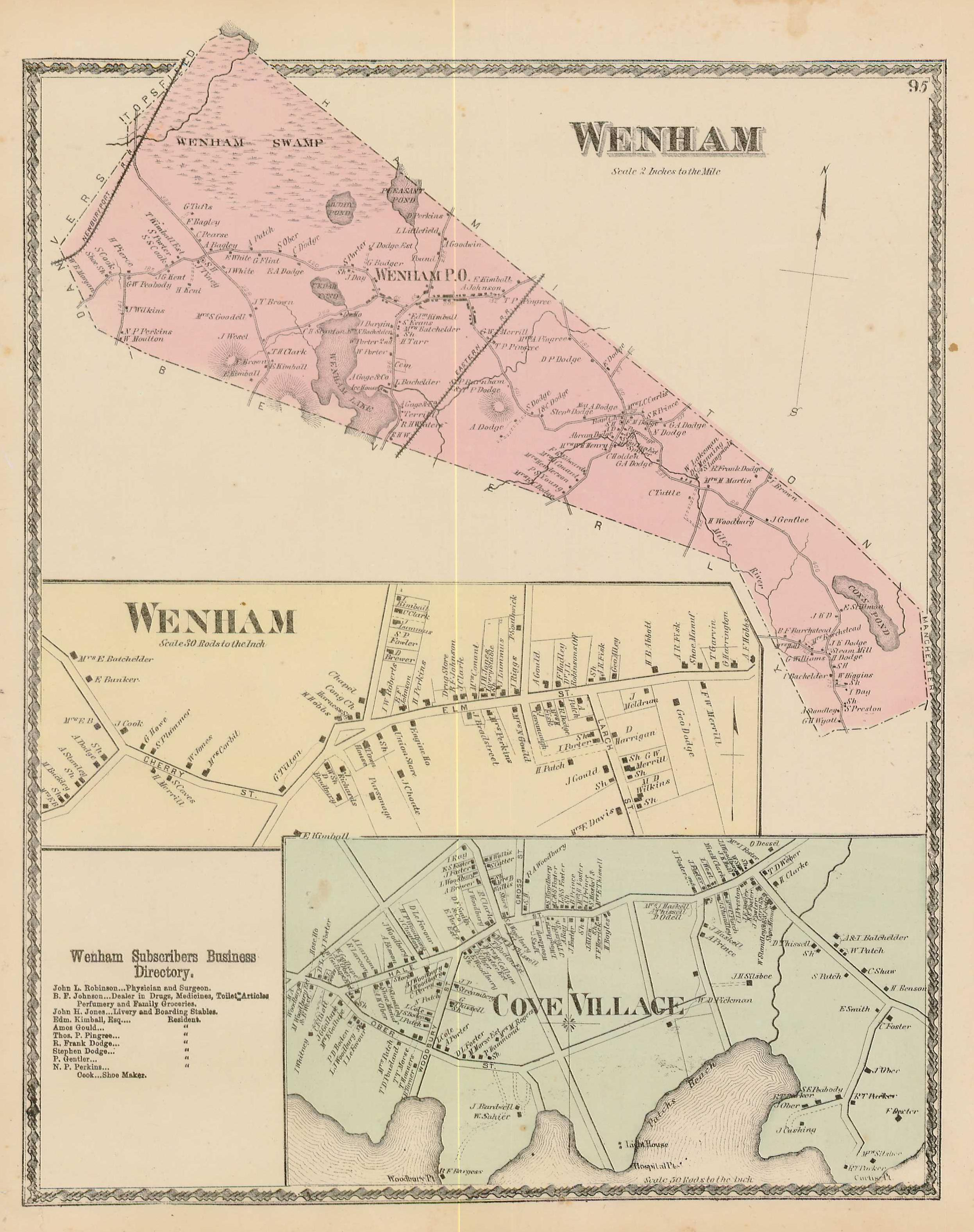 1872 map of Wenham, Massachusetts